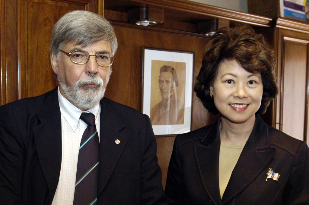 Uruguay Minister of Labor Eduardo Bonomi with U.S. Secretary of Labor Elaine Chao